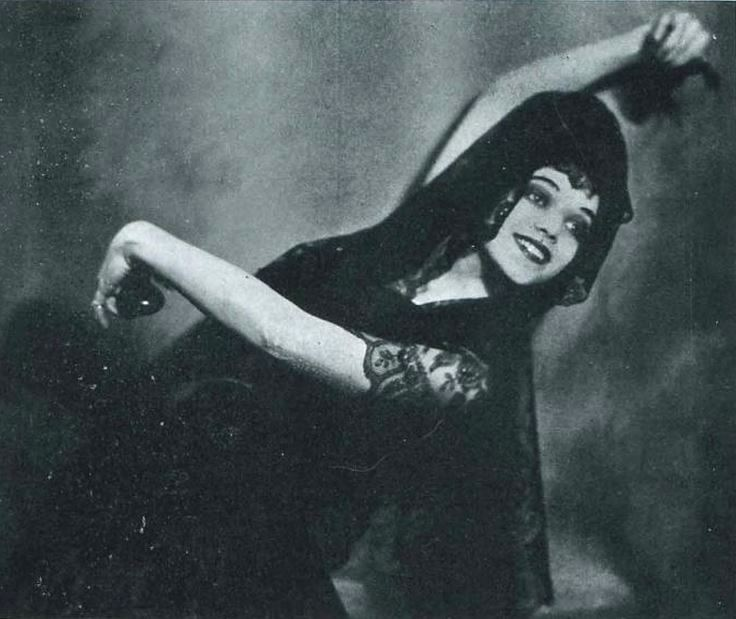 Dancer Doris Niles, on page 21 of the August 1922 Broadway Brevities. The caption states that she is a character dancer with the Capitol Theatre Ballet and was formerly with the Morgan Dancers.